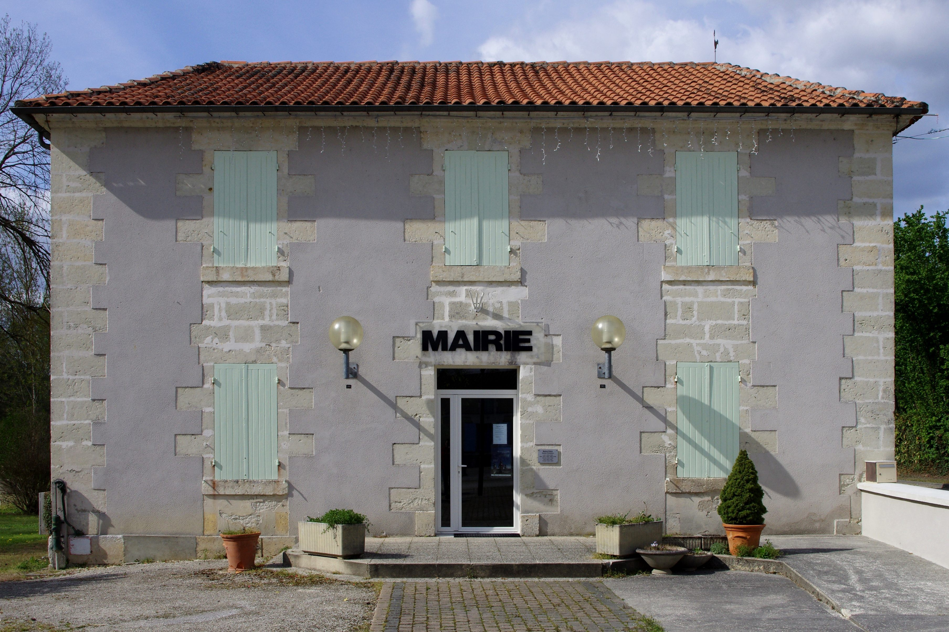 Town hall of Yviers, Charente, France.